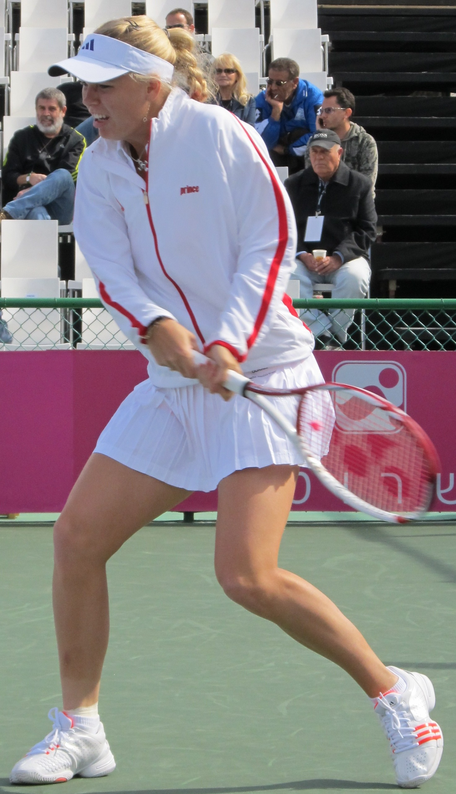 The tennis player Caroline Wozniacki of Denmark during her match against Patty Schnyder of Switzerland in the 2nd day of Fed Cup Group I 2011 Europe/ Africa in Eilat, Israel